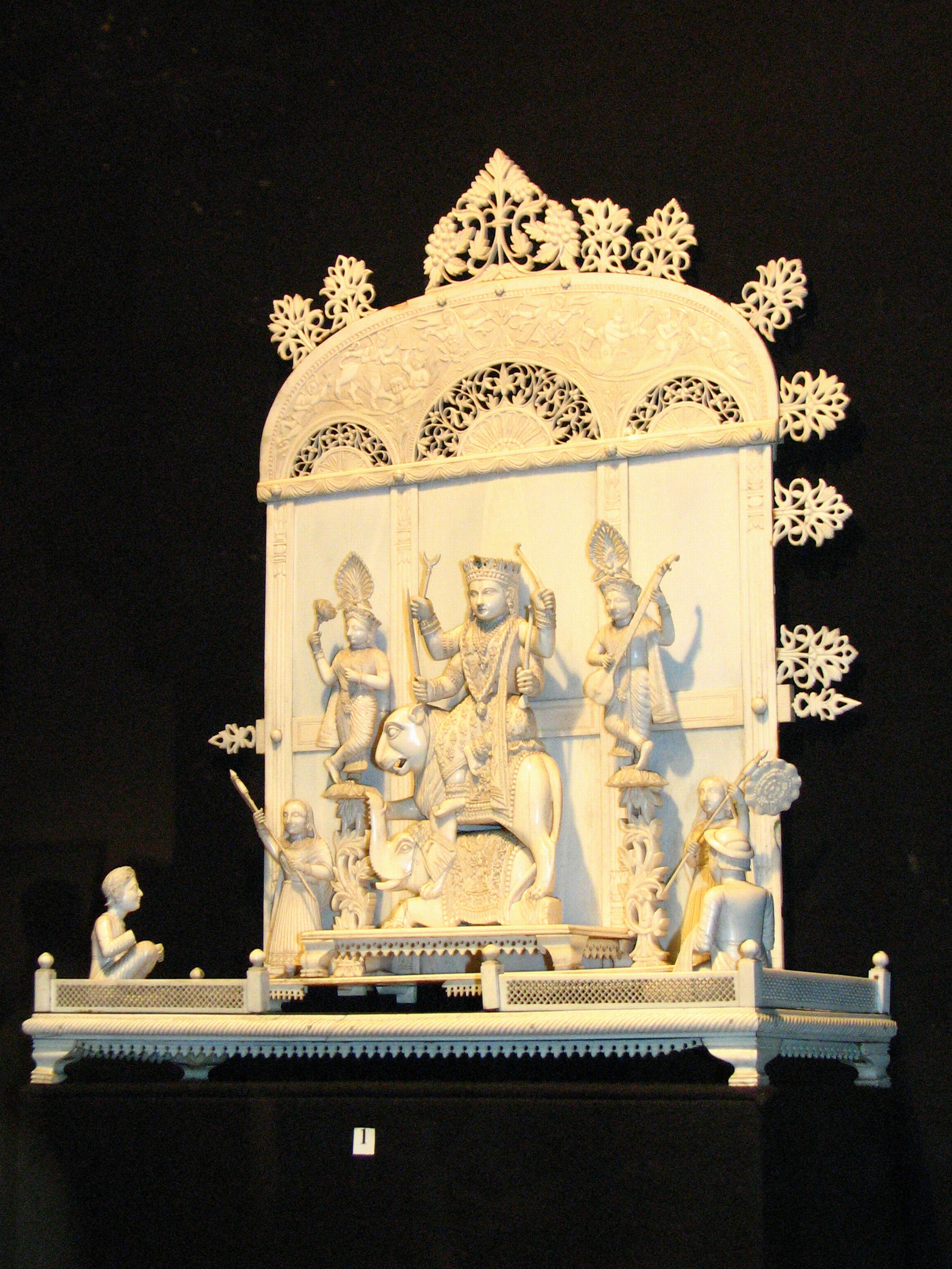 Saint Petersburg. Kunstkamera. Hall of India. Altar of Kali (ivory).